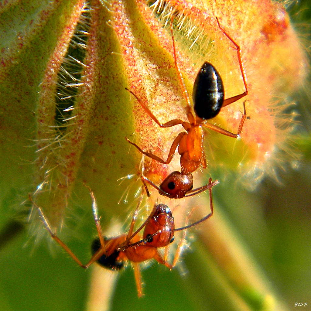 Whenever I pass a Lindenleaf rosemallow plant (Hibiscus furcellatus) in the wild, I always take a moment by one of the outlandish buds to watch the industrious carpenter ants at work. This bud was awash in early morning sunlight on a windy day at Sweetbay Natural area last week.